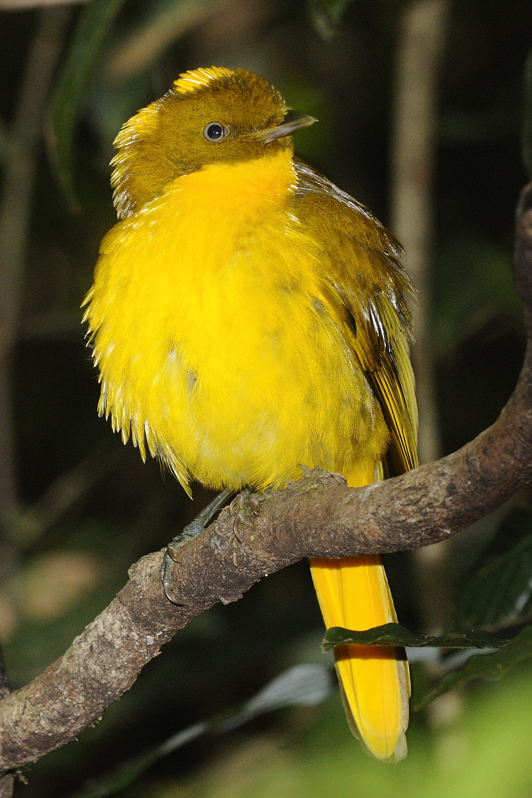 Golden Bowerbird (Prionodura newtoniana), Topaz, QLD